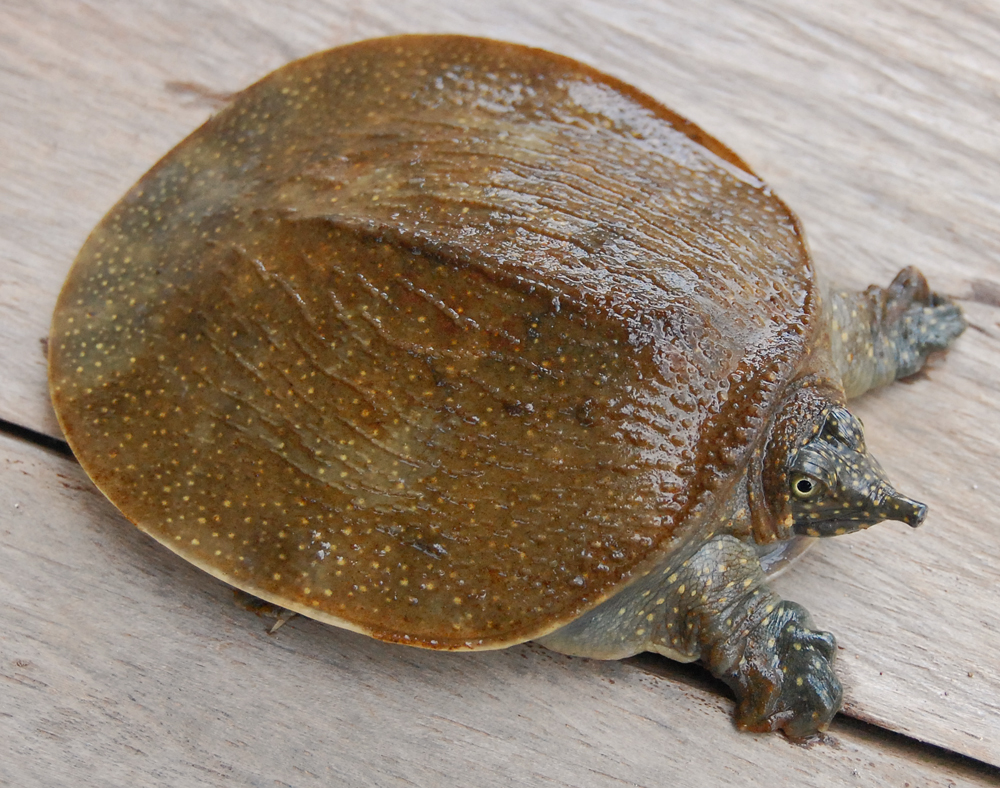 Amyda cartilaginea juvenile, from Mentaya Hulu, Central Kalimantan, Indonesia.